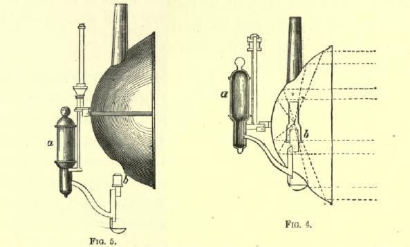 Bell Rock Lighthouse catoptric original optics.